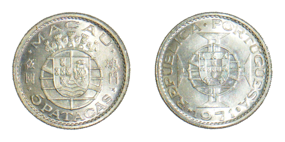 Macau-5Patacas 1971